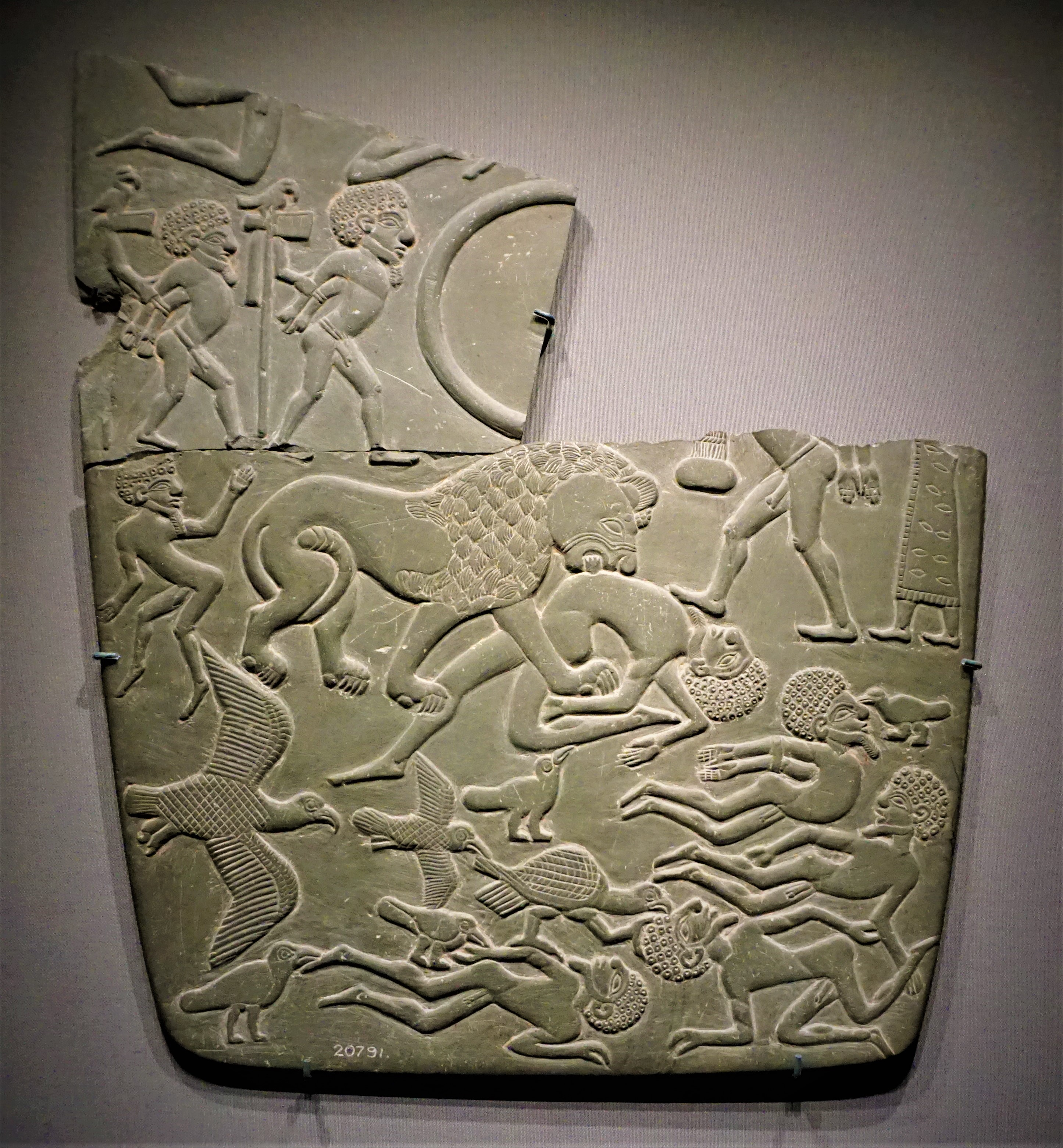 The Battlefield Palette 3100 BC - British Museum - for details